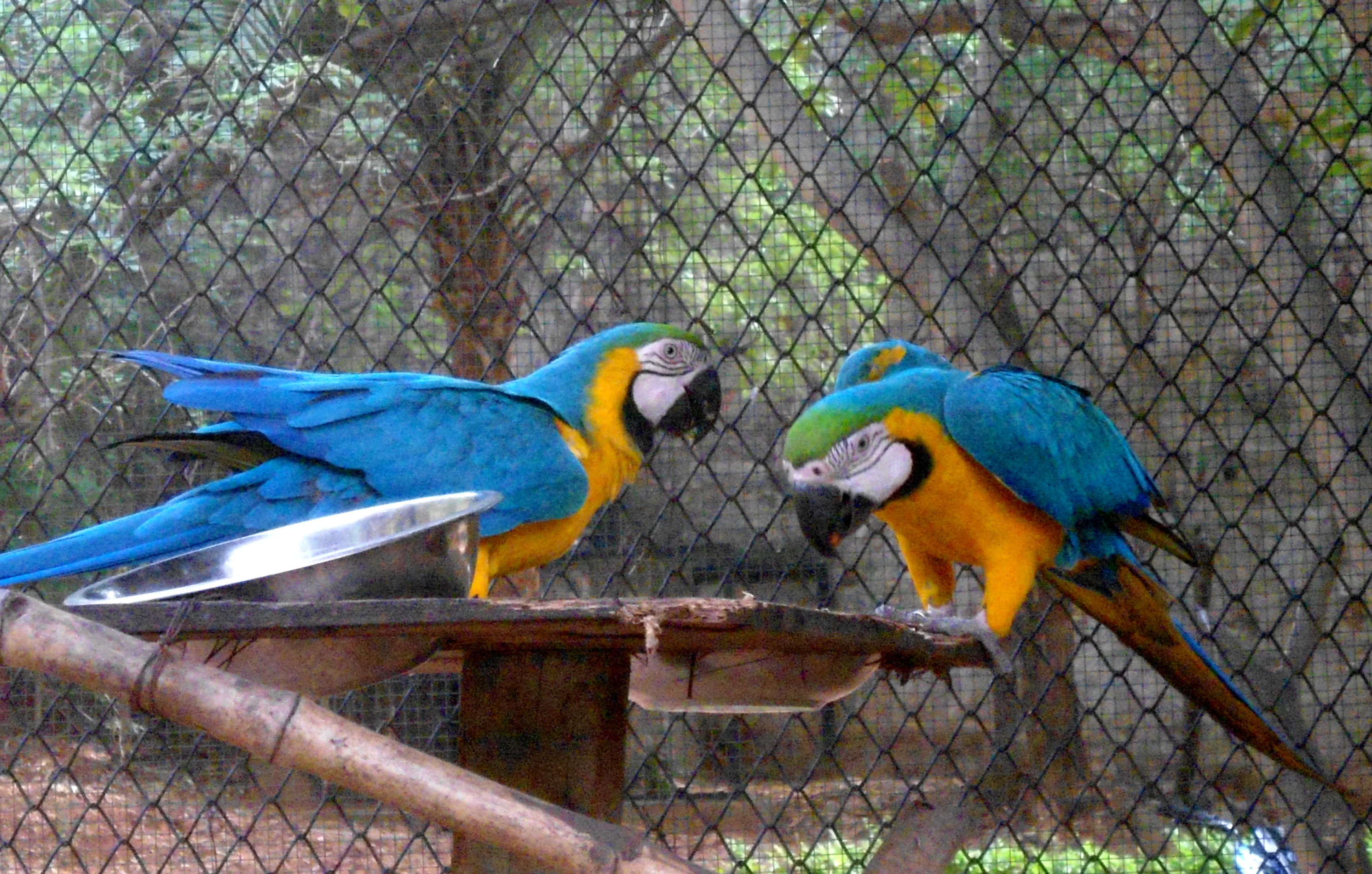 A Macaw Ara ararauna at Indira Gandhi Zoological Park in Visakhapatnam, Andhra Pradesh